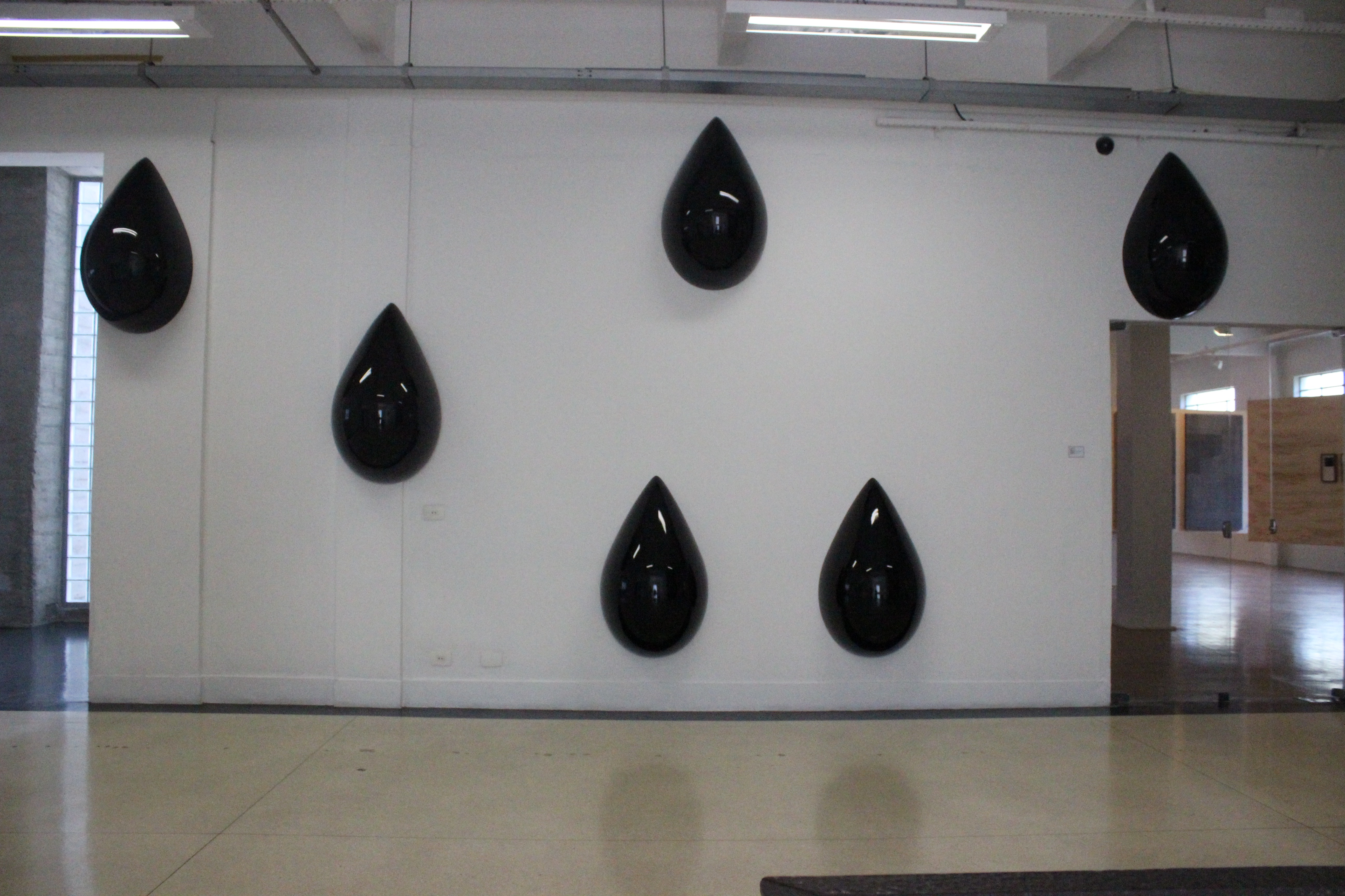 Second floor and another exposition